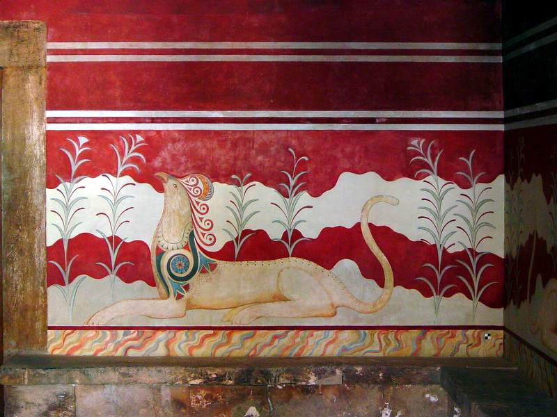 Knossos fresco in throne palace.